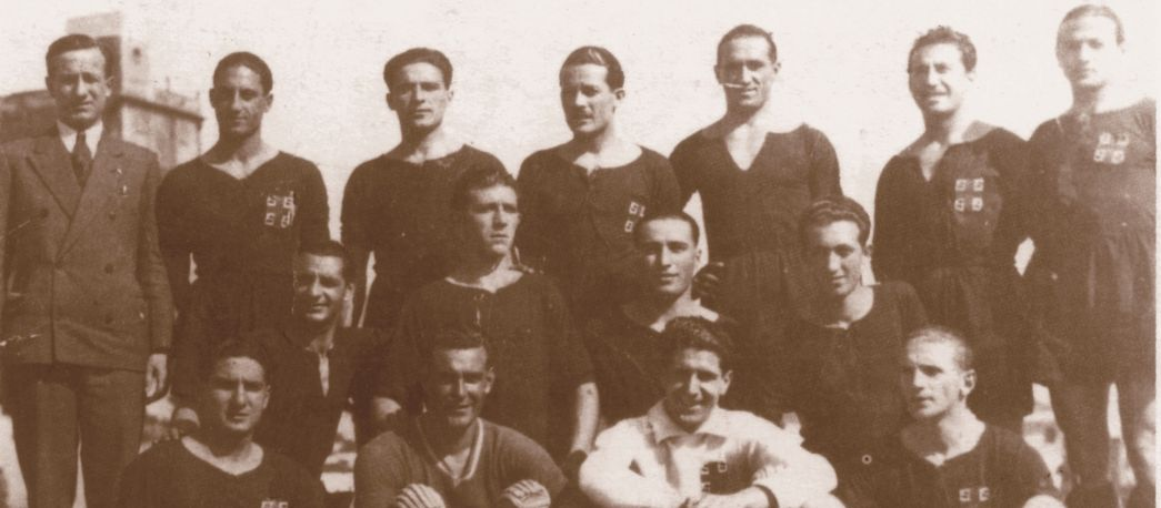 A roster of C.S. Cagliari in the 1930–31 season.